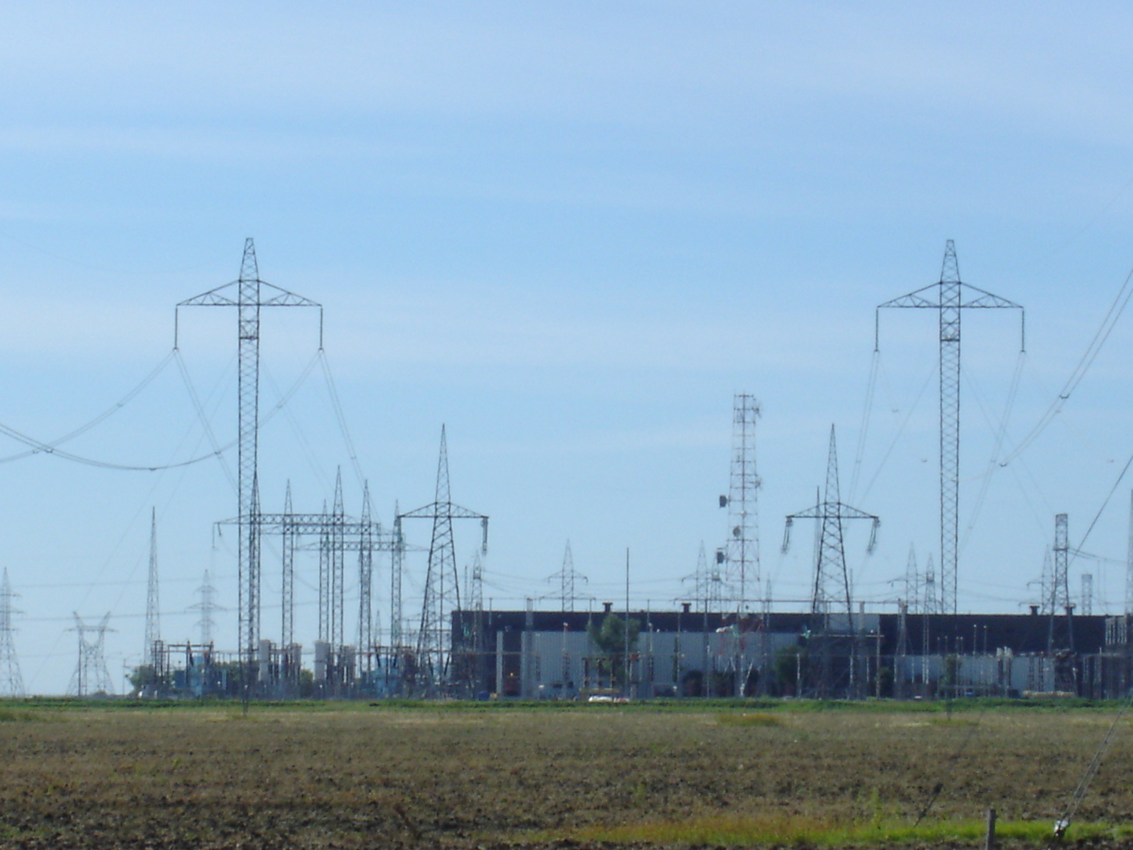 Nelson River Bipoles 1 and 2 terminus at Rosser, Manitoba, Canada. The tallest pylons in the image are long distance pylons, and the pointed "Christmas tree" pylons behind are High Voltage Direct Current (HVDC) anchor pylons where the HVDC lines enter the Dorsey Converter Station. This sort of bipolar transmission line would be used for long distance electricity transmission projects needed for greater reliance on alternative energy. Projects go by the names: supersmart grid, unified smart grid, super grid, or mega grid.